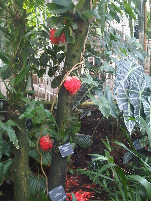 Brownea coccinea x latifolia with flowers in Kew Gardens, England.